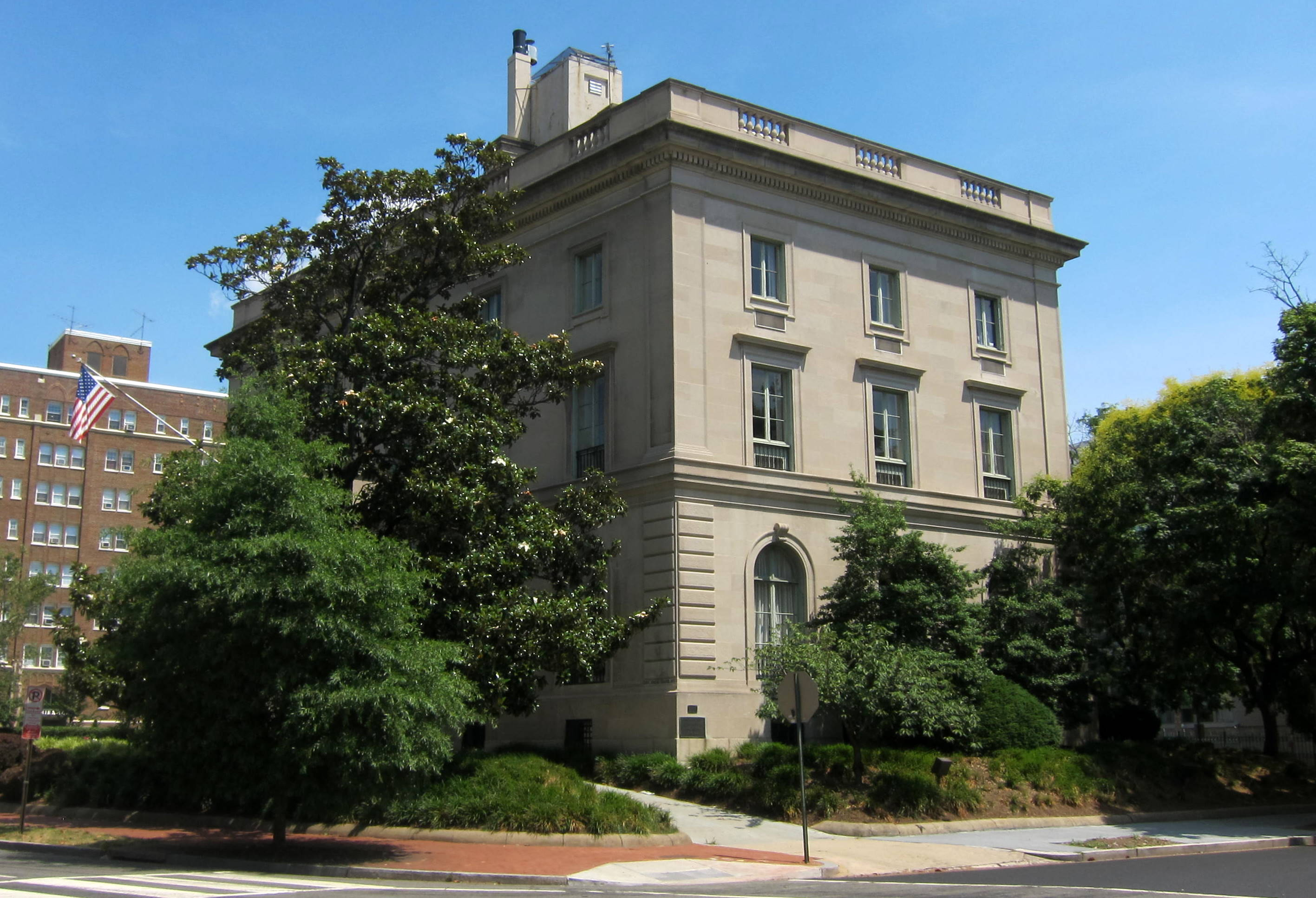 The Brohead-Bell-Morton Mansion (also known as the Levi P. Morton House) located at 1500 Rhode Island Avenue, N.W., in the Logan Circle neighborhood of Washington, D.C. Built in 1879 to the designs of architect John Fraser, (renovated in 1912 by architect John Russell Pope) the Beaux-Arts style building originally served as the private residence of John. T. and Jessie Willis Brodhead. Since 1939, the building has served as offices for the National Paint, Varnish, and Lacquer Association (now known as the National Paint and Coatings Association). Former occupants include Alexander Graham Bell and his wife Mabel Gardiner Hubbard, U.S. Vice President Levi P. Morton, the Embassy of Russia, and U.S. Secretary of State Elihu Root. The building is listed on the National Register of Historic Places and the District of Columbia Inventory of Historic Sites.